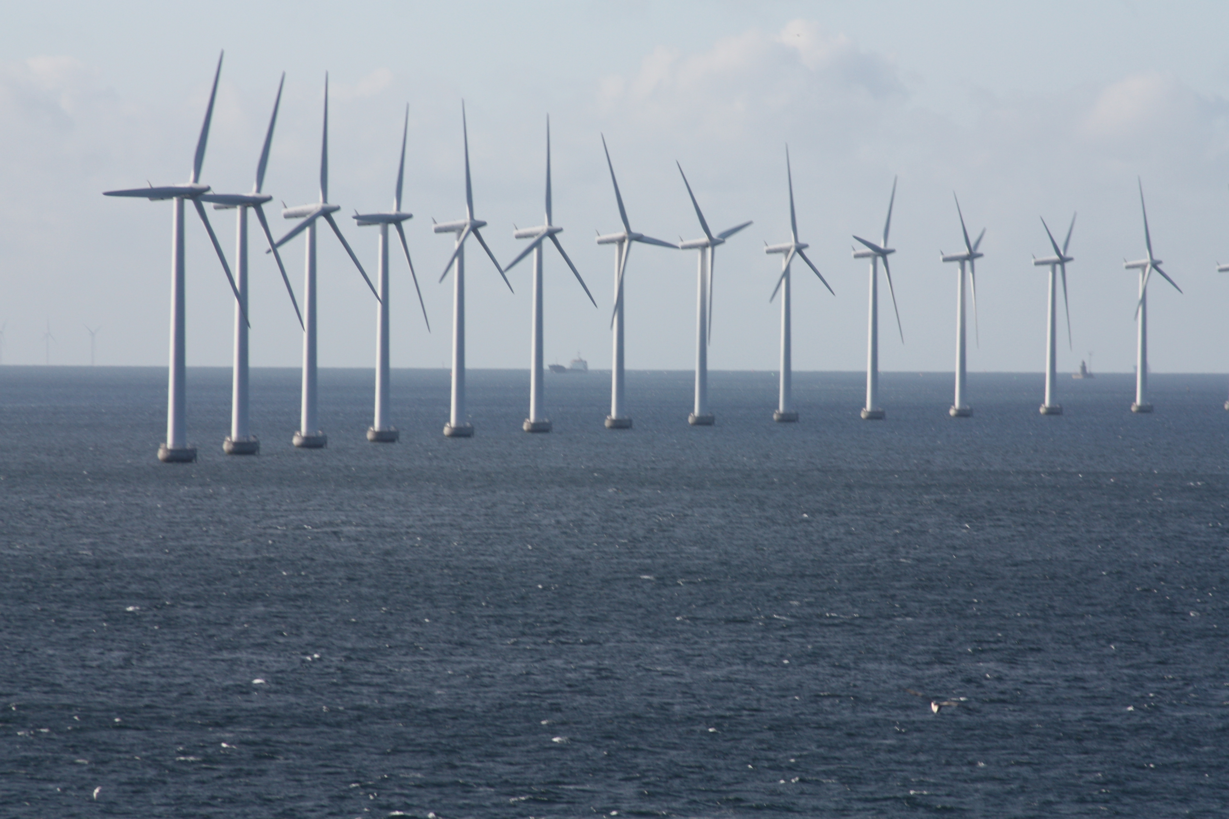 Copenhagen August 2009, view from North port, from a cruise ship